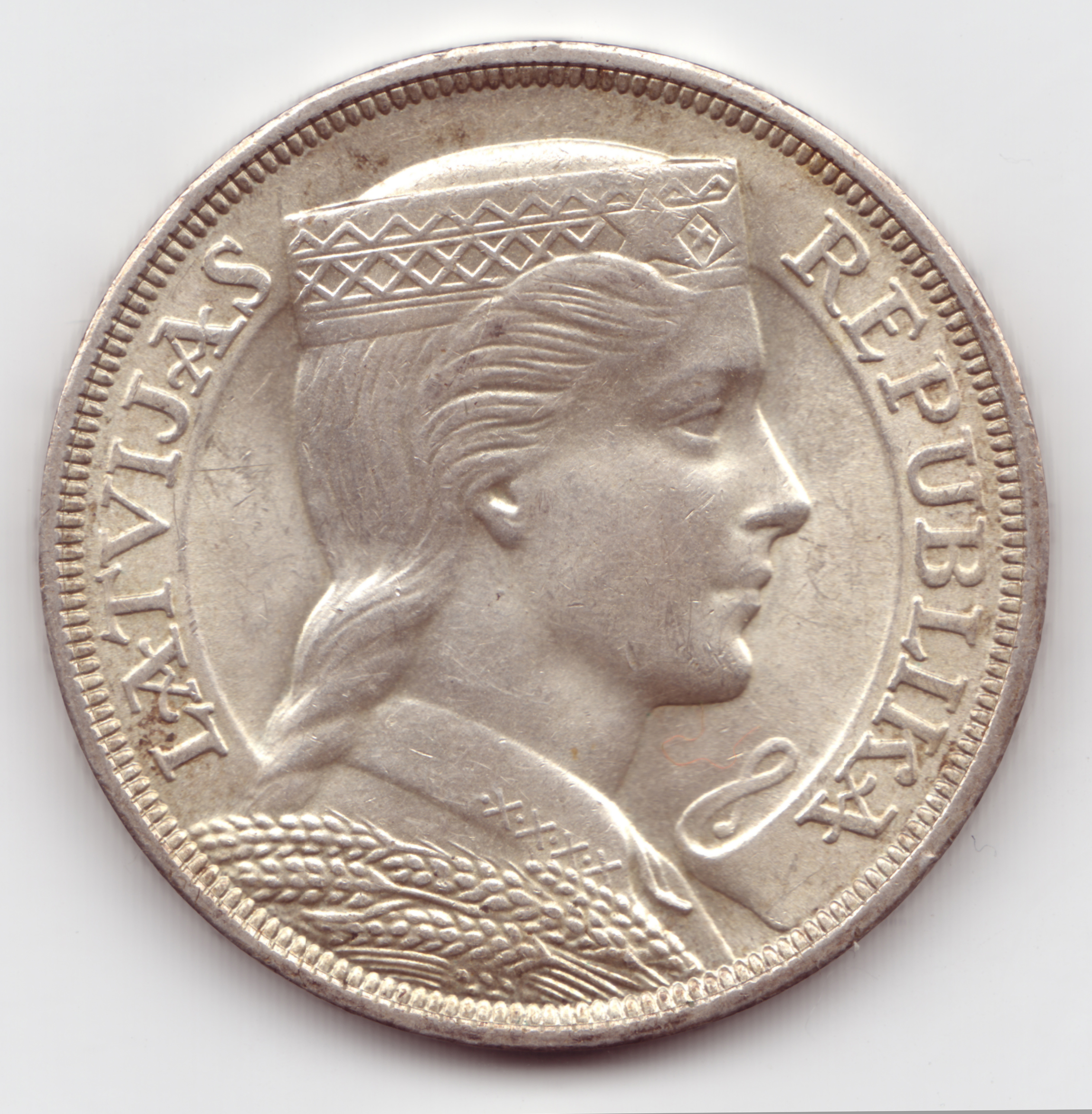 Reverse of five lats coins issued in 1931. See Image:Five Latvian Lats 1931.jpg for detalised description of the coin